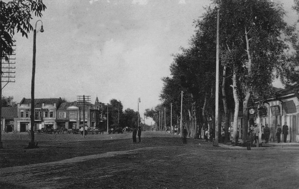 Pereyaslav. Pre-1917 poscard. Flickr data on 2011-08-13 Tags: poscard, Pereyaslav, Public Domain License: CC BY-SA 2.0 User: paukrus Ruslan